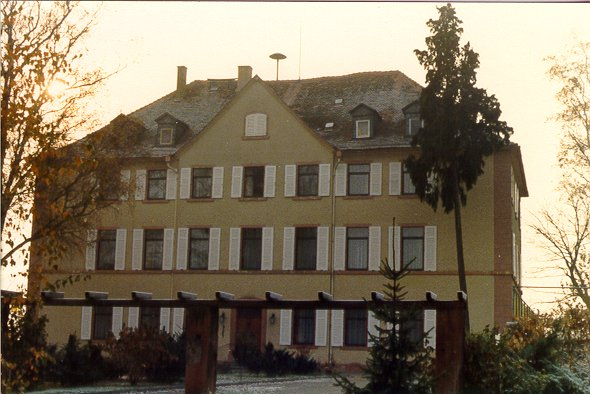 Schloss Naumburg in the fall of 1980.